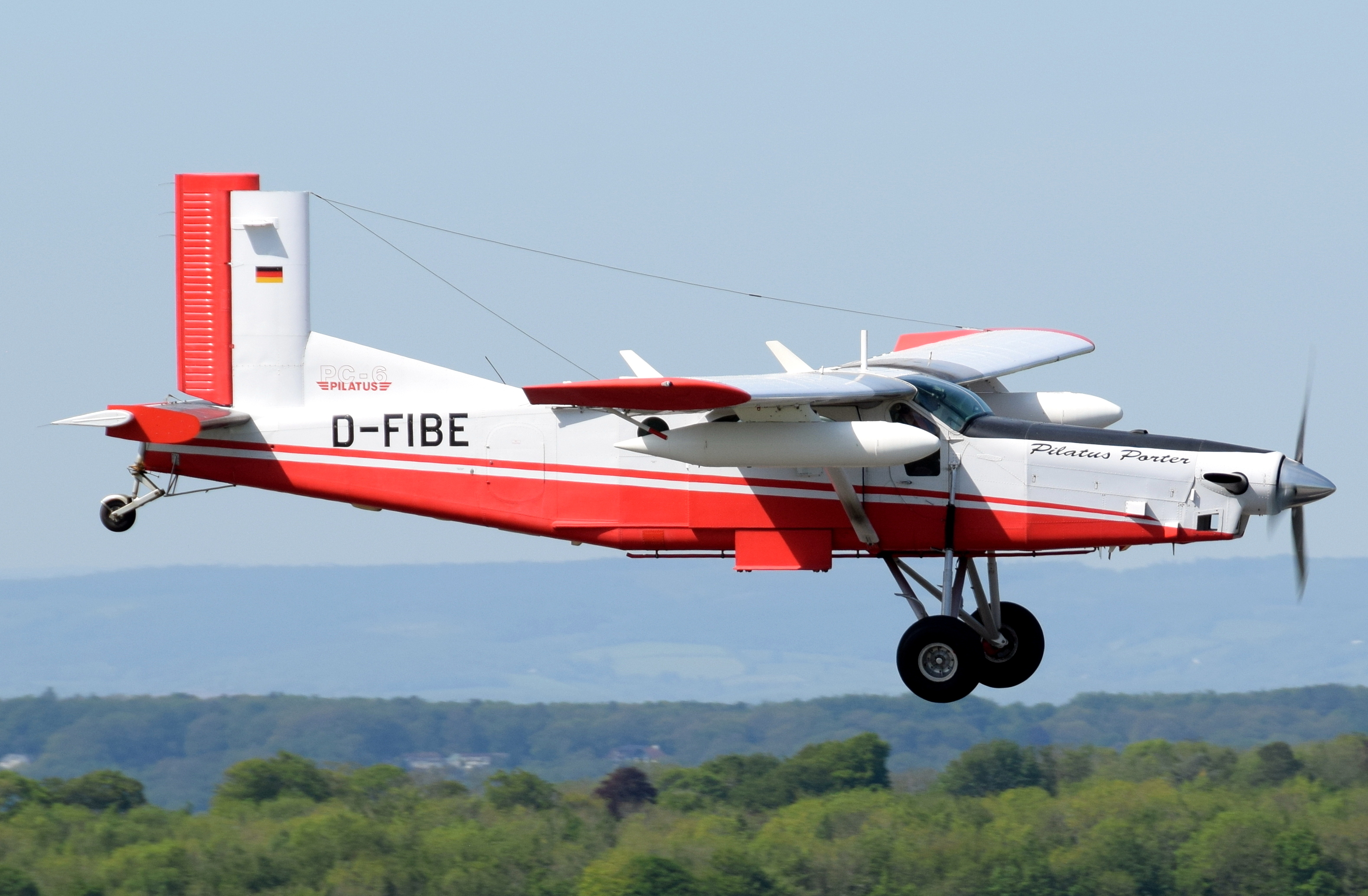 Pilatus PC-6 Turbo-Porter B2-H4 (D-FIBE) arrives Bristol Airport, England. Privately owned.